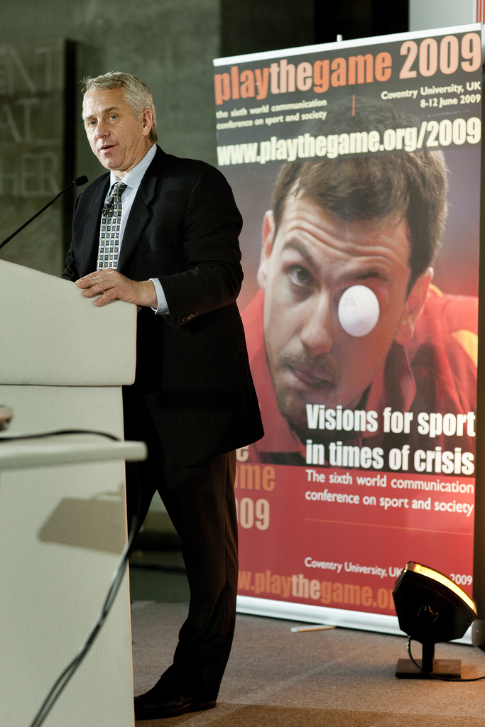 Play the Game 2009 in Coventry, UK 8 - 12 June 2009. A champion's look at the cycling world today. Greg LeMond, Former Tour de France winner and Executive Director of LeMond Fitness Inc. -- Photos taken at Play the Game 2009 by conference photographer Jens Astrup. This photo is free to download and use for press or other purposes, provided both Play the Game and Jens Astrup are credited. We would very much like to hear where photos are used so please send us your links. Visit our homepage at for more information